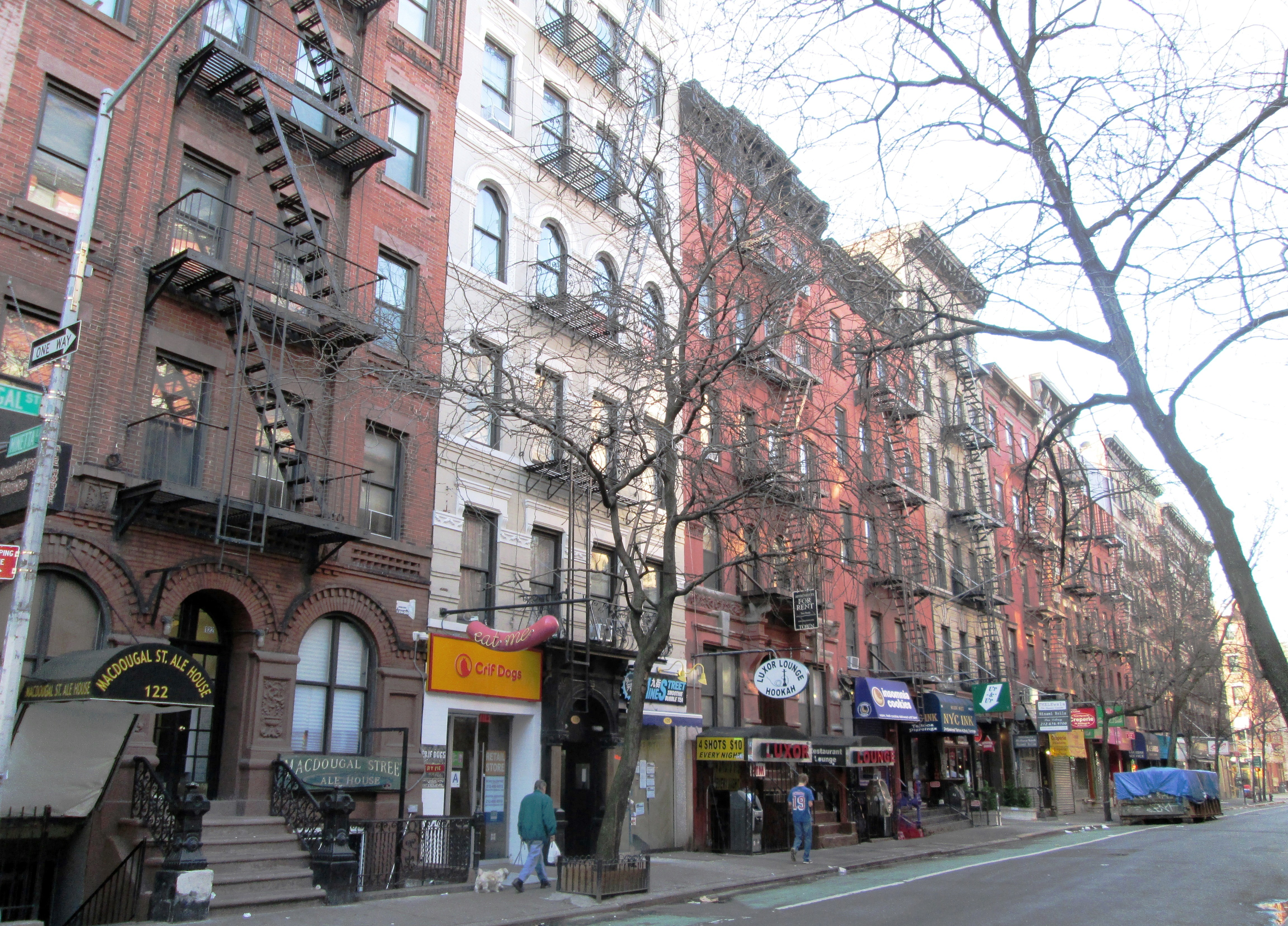 The east side of MacDougal Street below the intersection with Minetta Lane in the South Village neighborhood of Greenwich Village, Manhattan, New York City is located within the South Village Historic District.